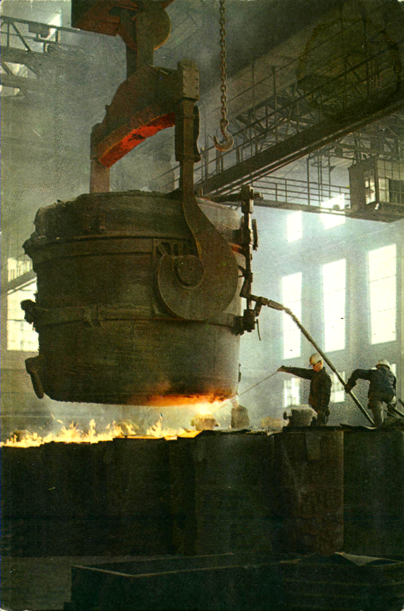 Steel processing in Fagersta ironworks.